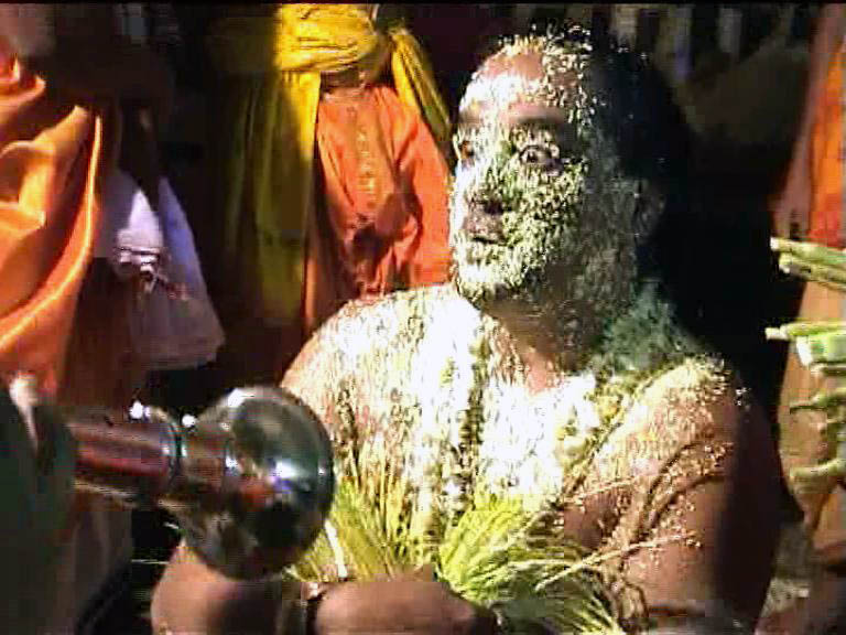 nagadarshana at belle badagumane brahmastana,mmoodubelle,udupi.the file was entirely created by me